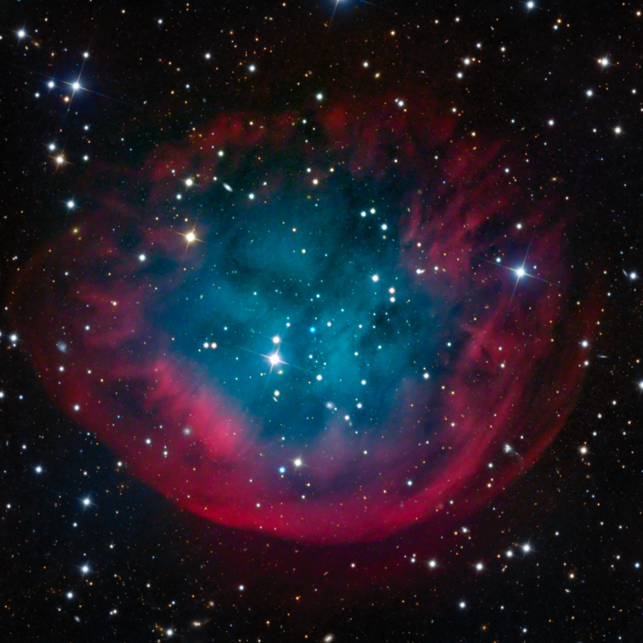 Abell 31 Picture Details: Optics 32-inch Schulman Telescope (RC Optical Systems) Camera SBIG STX 16803 CCD Camera Filters AstroDon Gen II Dates December 2011 and January 2012 Location Mount Lemmon SkyCenter Exposure HaLRGB = 660:240:120:120:120 minutes Acquisition ACP Observatory Control Software (DC-3 Dreams),TheSky (Software Bisque), Maxim DL/CCD (Cyanogen) Processing CCDStack V2 (CCDWare), Photoshop CS5 (Adobe), PixInsight Guest Astronomers: Austin, Liz and Dave Booth credit line and Copyright Adam Block/Mount Lemmon SkyCenter/University of Arizona